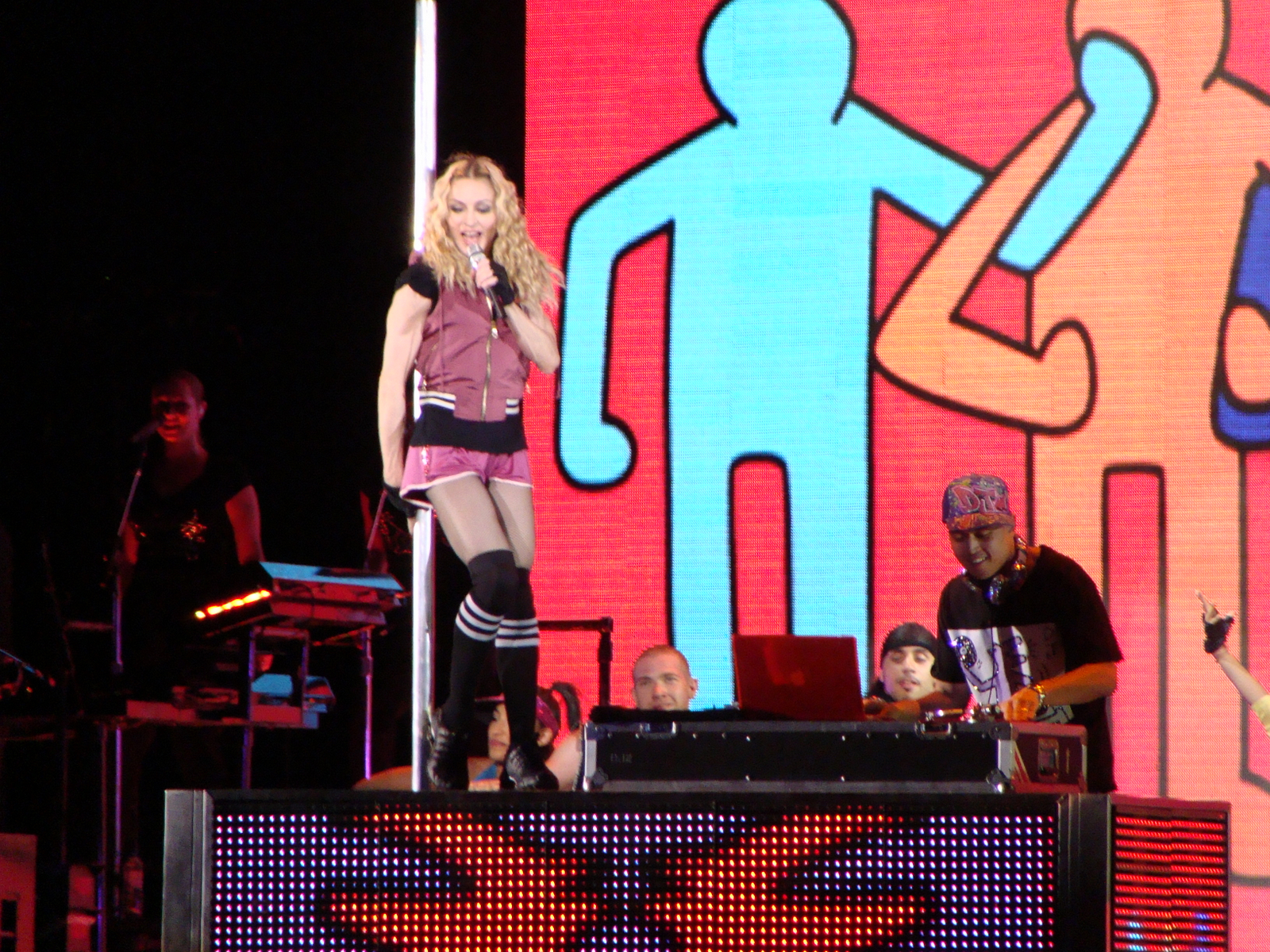 Madonna Day